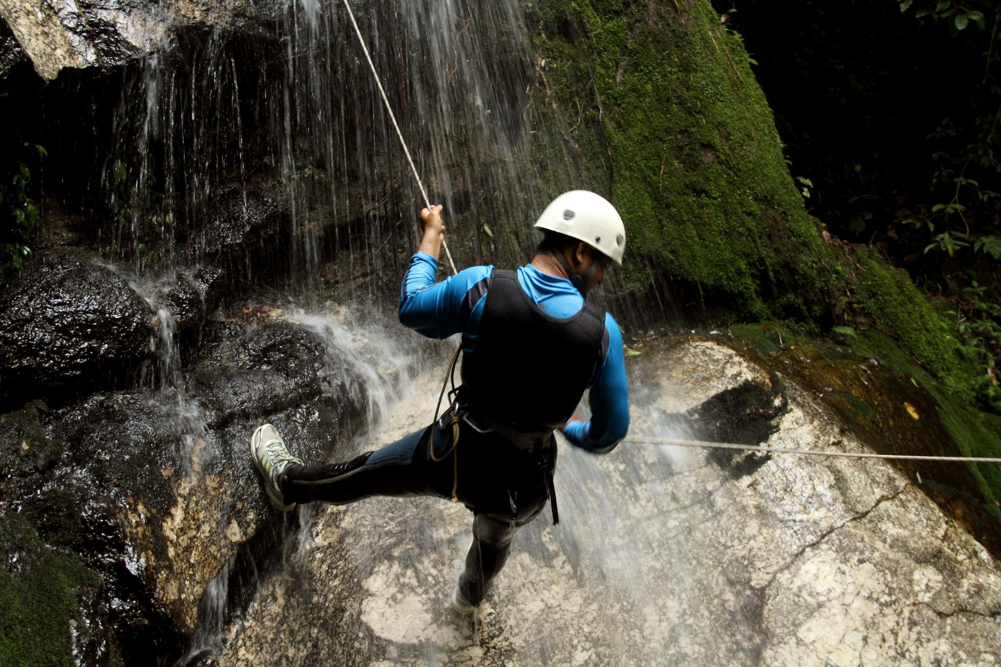 Canyoing at Sundarijal, Kathmandu By:Srijesh Gautam